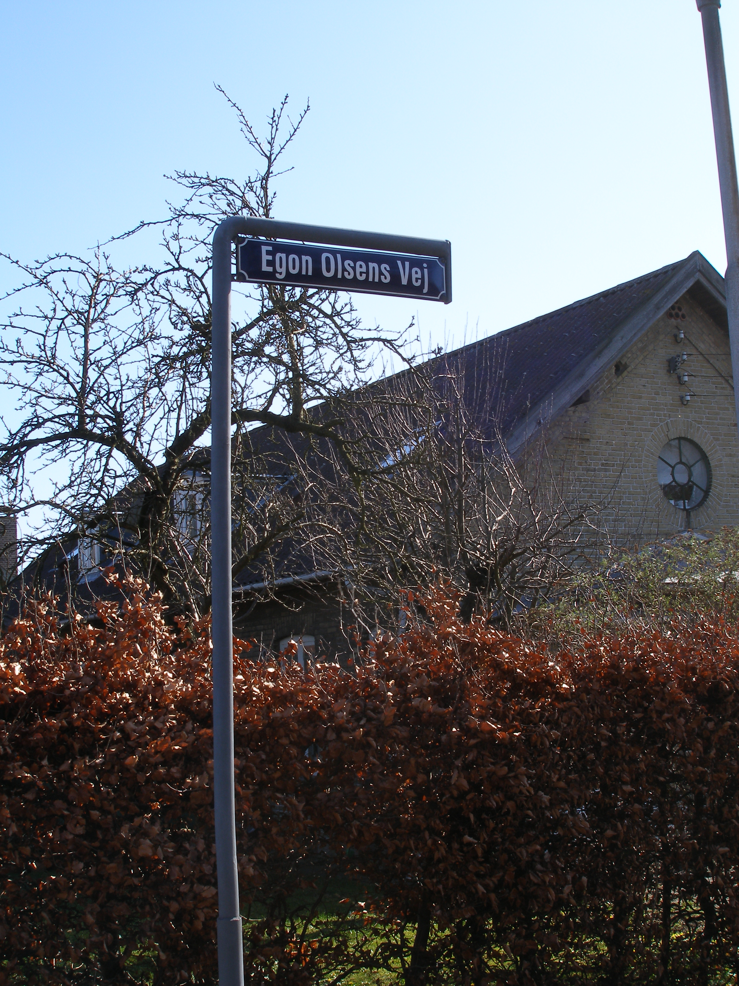 Egon Olsen Street leading to Vridsløse Statsfængsel prison